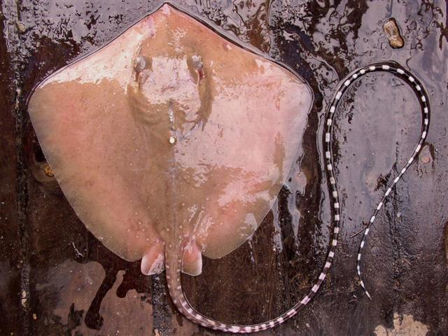 Dasyatis bennetti from the Neendakara coast, Kerala, India.